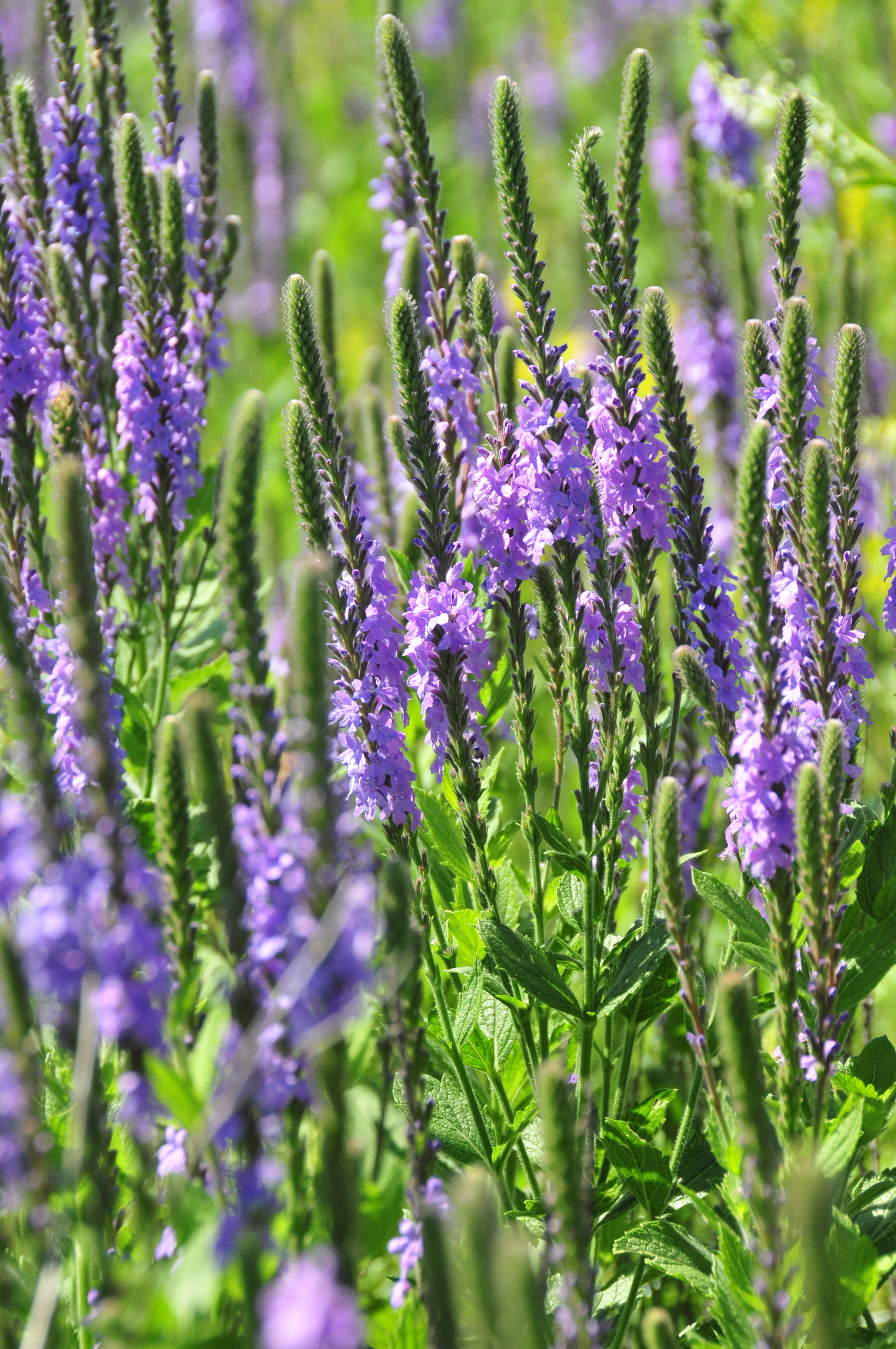 Hoary vervain (verbena stricta) is a native wildflower that tolerates disturbance on prairies. It is not preferred forage for cattle and can increase under heavy season long grazing. It provides an abundance of flowers that are used by many species of insects. It establishes easily and is often included in seed mixes for prairie restoration. Photo: Tom Koerner/USFWS.